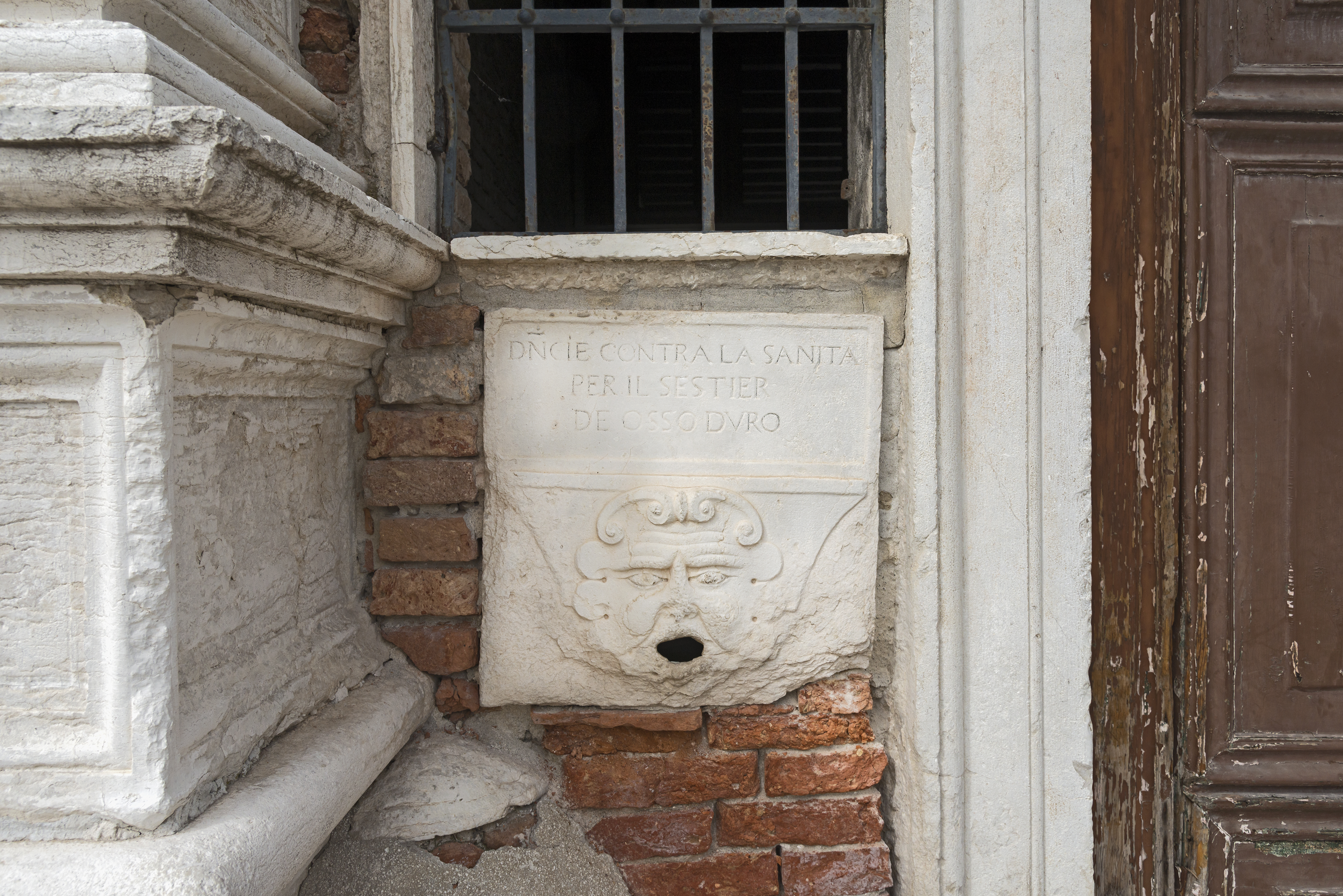 Santa Maria della Visitazione in Venice. Bocca di Leone one very rare specimen preserved in Venice.